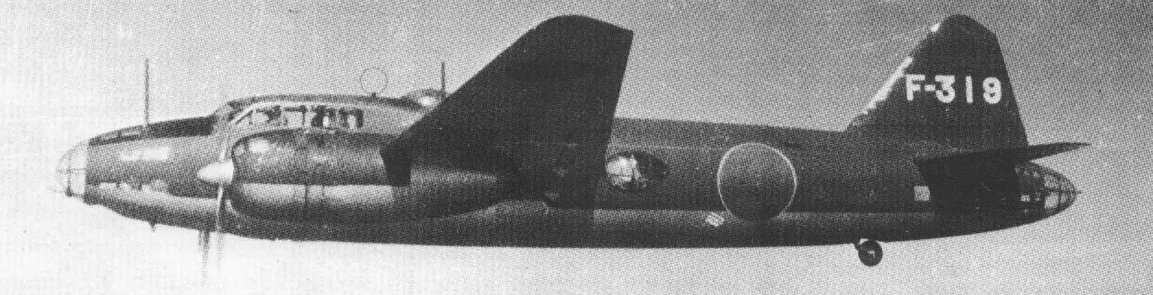 A Mitstubishi G4M Type 1 bomber of the Imperial Japanese Navy's 4th Air Group. This aircraft, in reconnaissance mode with fairings placed over the usually open bomb bay, appears to be from the air group's first section (chutai) because of the lack of tail stripes and the tail number. Photo was most likely taken during or just before the beginning of the Guadalcanal Campaign in August 1942.